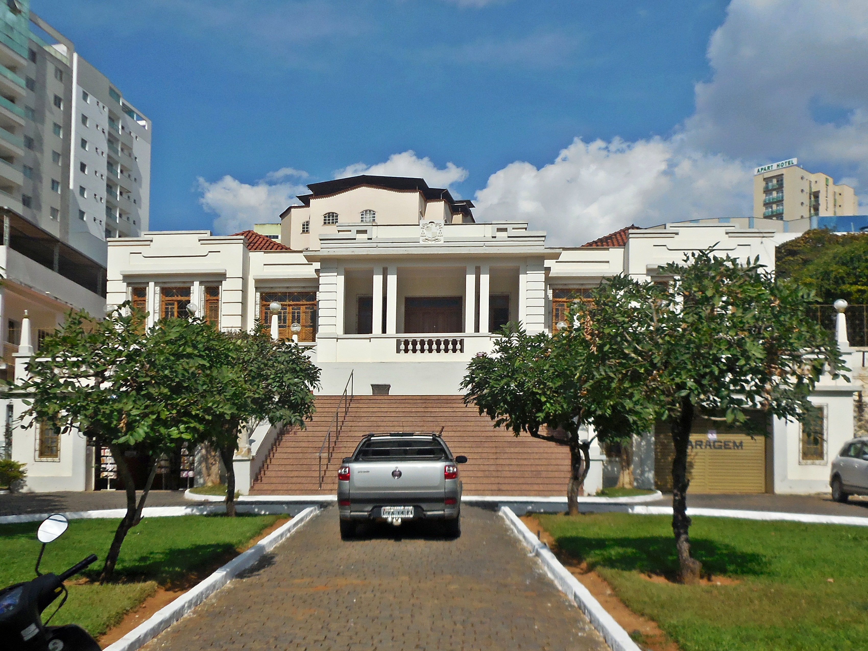 Facade of the Episcopal Palace, in Caratinga, Minas Gerais, Brazil.